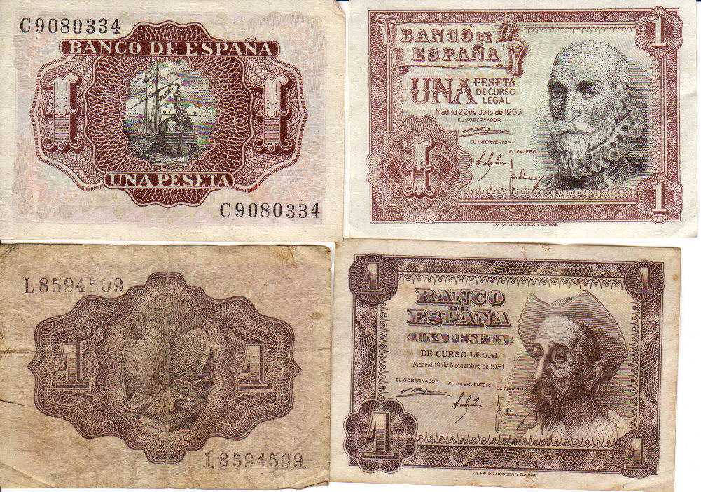 Spain, Franco, bank notes 1 peseta, two patterns, observe and reverse Scan from own collection